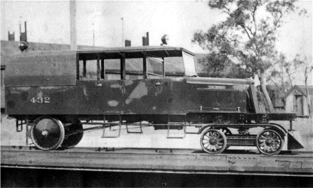 Petrol railcar used on Marble Bar Railway from 1934 to 1942